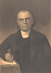 Depicted person: John Leadley Dagg – American theologian and minister